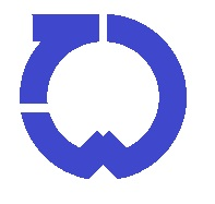 Tenei Fukushima chapter